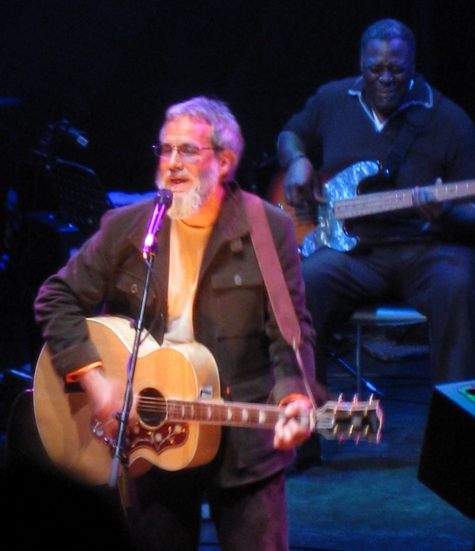 Photo taken on 28th May 2009 in London at Shepherds Bush Empire, Yusuf Islam performing for Island Record's 50th Anniversary.